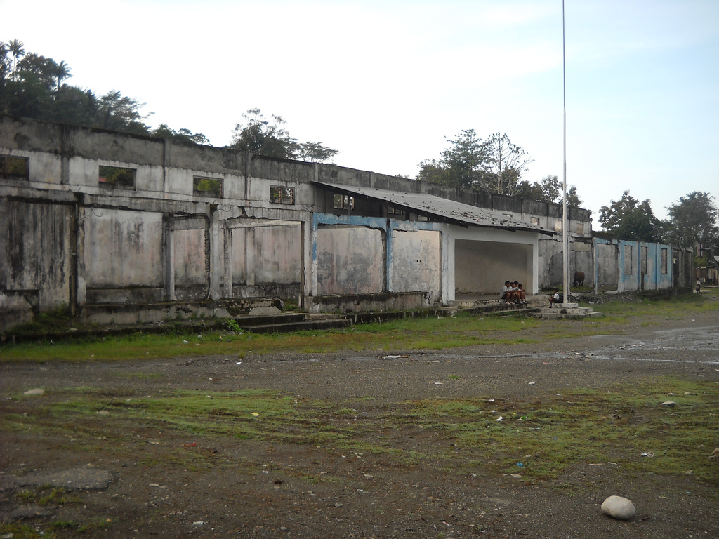 East Timor Indonesian Destruction 2 - SAME Markets. Detail of part of the old markets in SAME that were destroyed by the Indonesion Army.